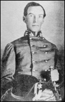 Winfield Scott Featherston, from HyperText Transfer Protocol